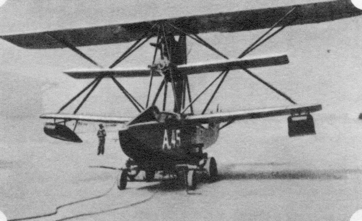 Hansa-Brandenburg CC (A.45). Equipped with a 200 hp 6-cylinder in-line engine, this aircraft was fitted with an experimental middle wing which made it a triplane; the climb performance improved slightly, but increased drag and weight involved a significantly lower maximum speed. A.45 was delivered on May 14, 1918 and crashed near Trieste on September 19.